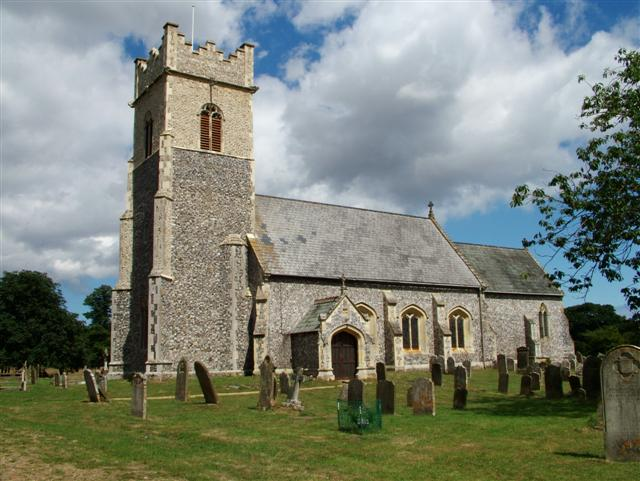 Somerleyton Church